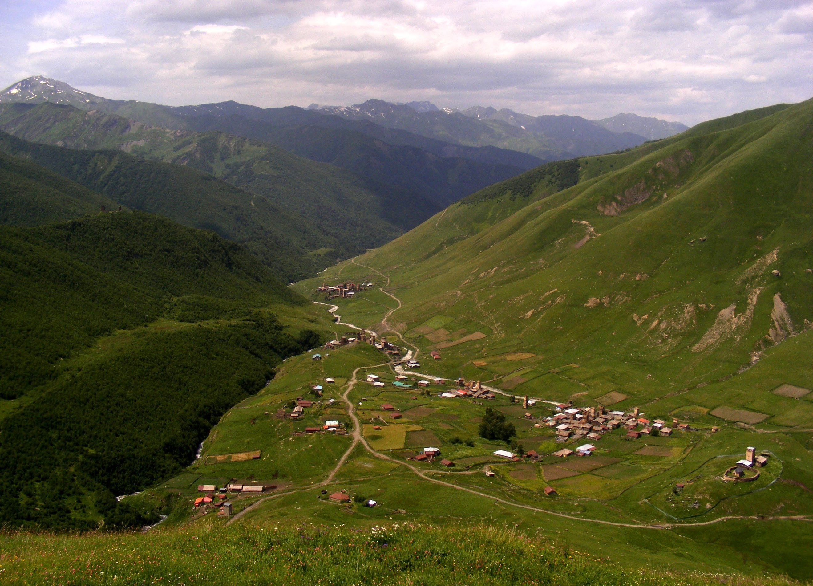 Ushguli, view from mountain Legarde (July 2009)